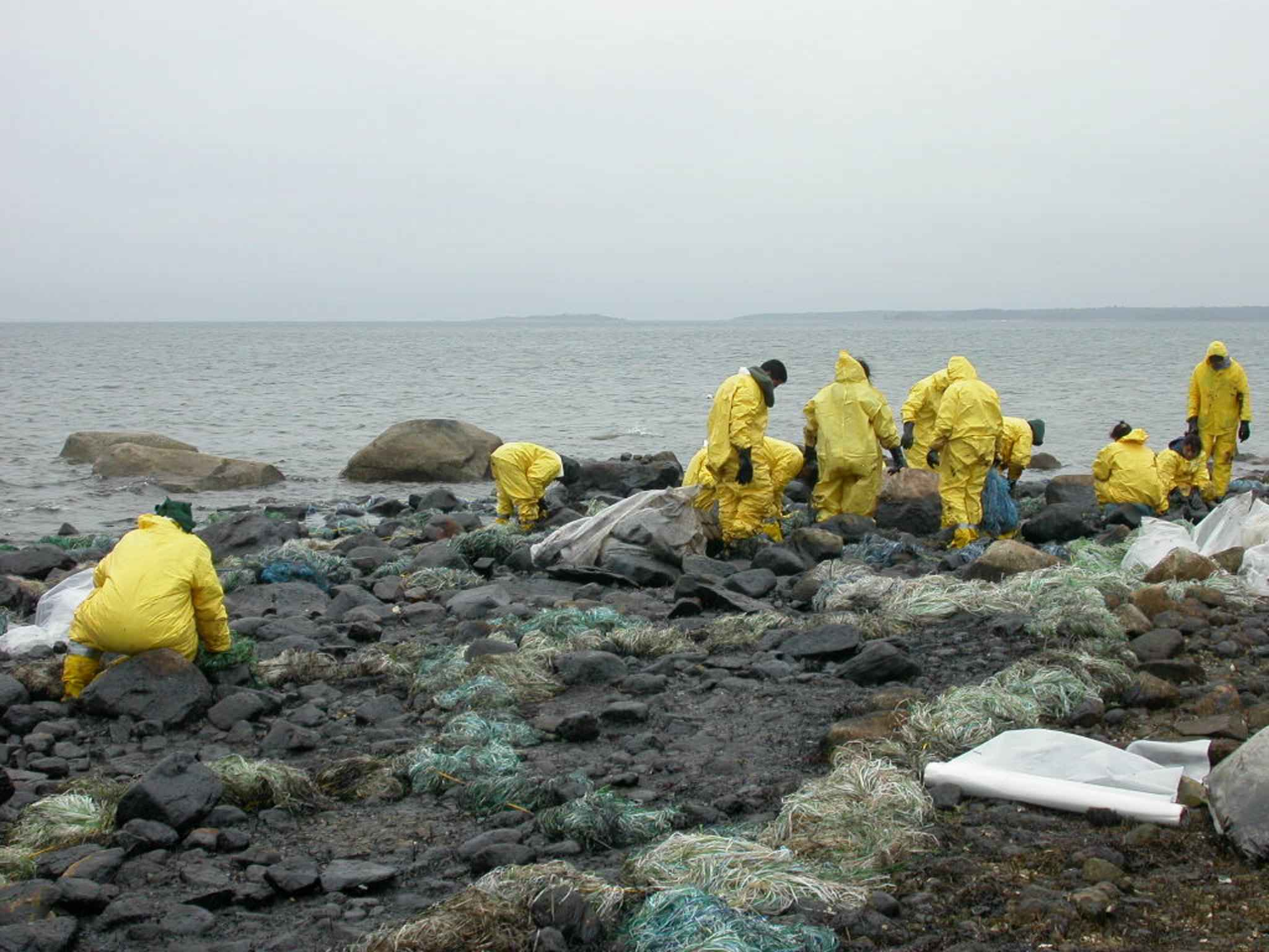 Image title: Workers clean up after oil spill on coast Image from Public domain images website